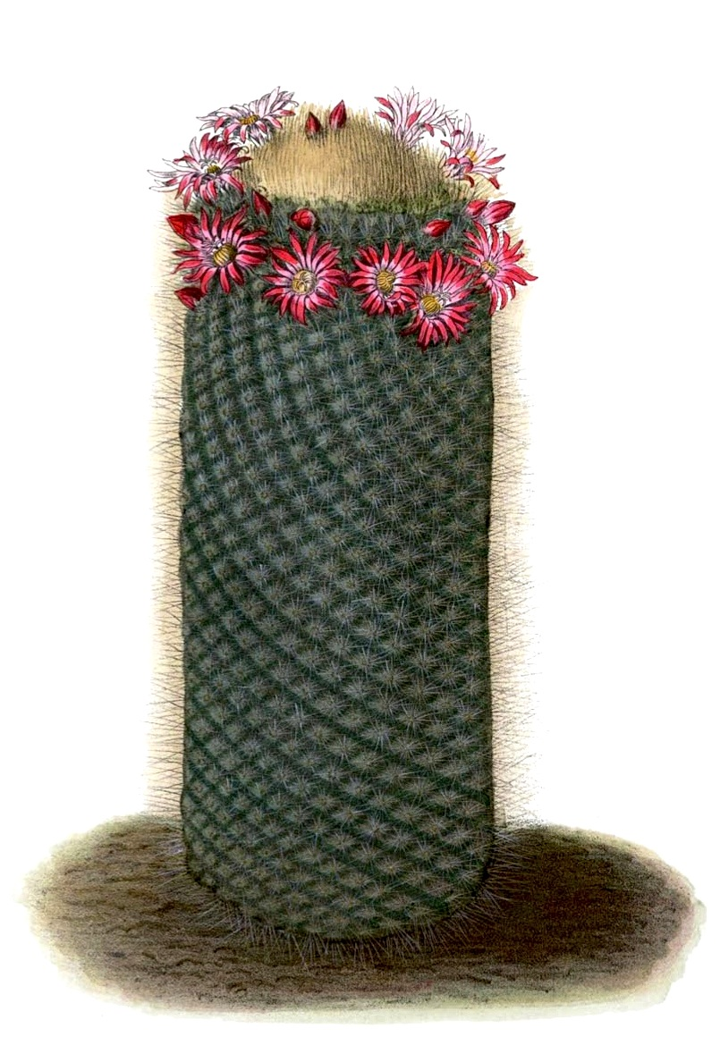 Mammillaria spinosissima